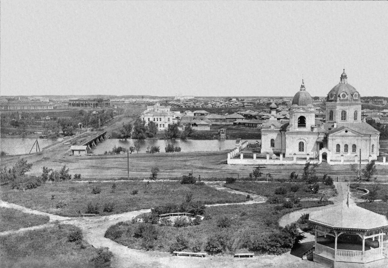 View of the city Omsk before 1905. Left behind the river is Lubina Grove. Across the river Om thrown Ilyinsky Bridge. Right is Prophet Elias Church.